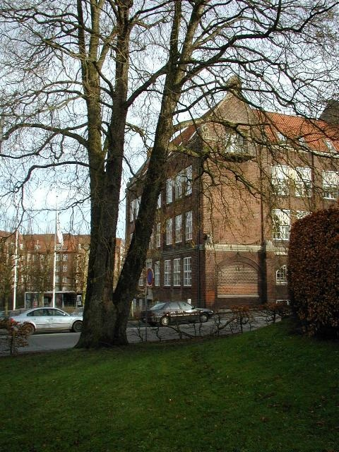 Corylus colurna